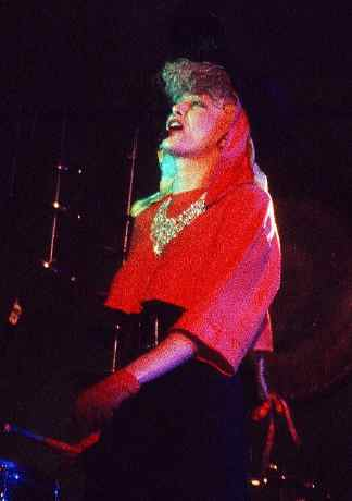 Alannah Currie, Thompson Twins, Bristol Hippodrome